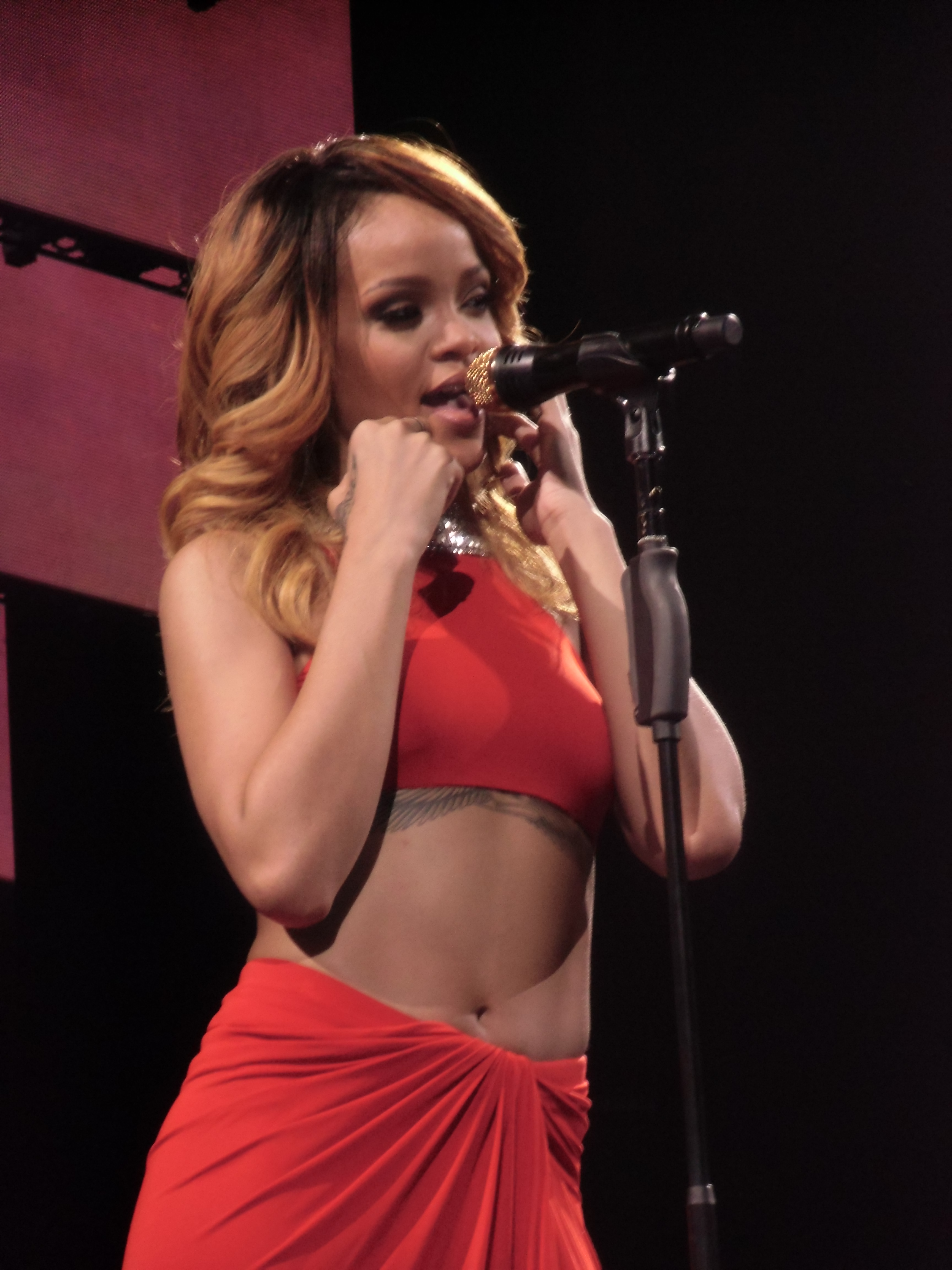 Rihanna performing at her Diamonds World Tour in Cologne on June 26, 2013.